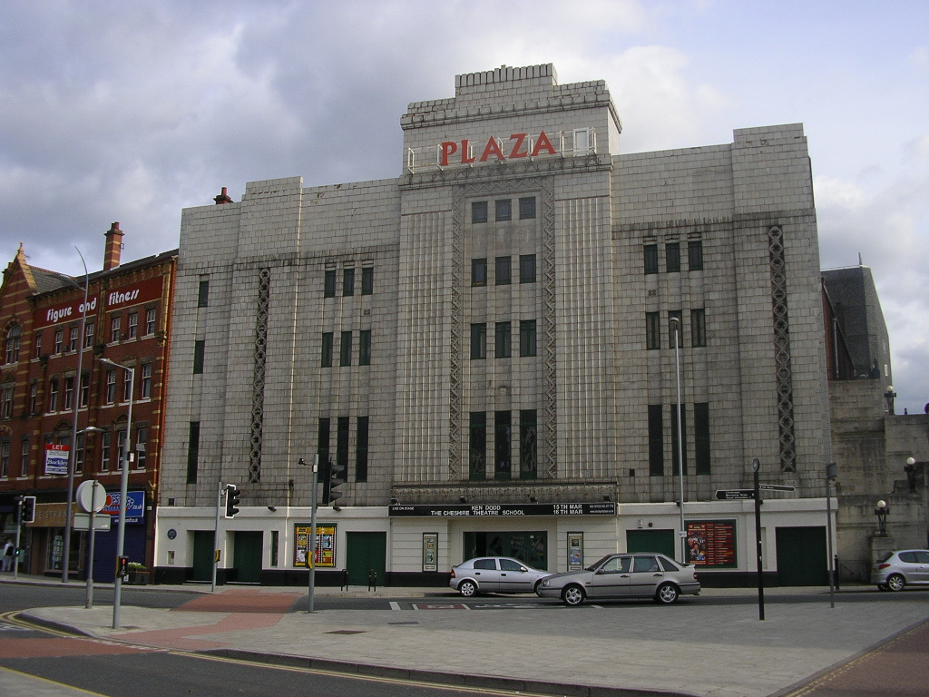 Photograph of Plaza Cinema, Stockport in Greater Manchester, England.